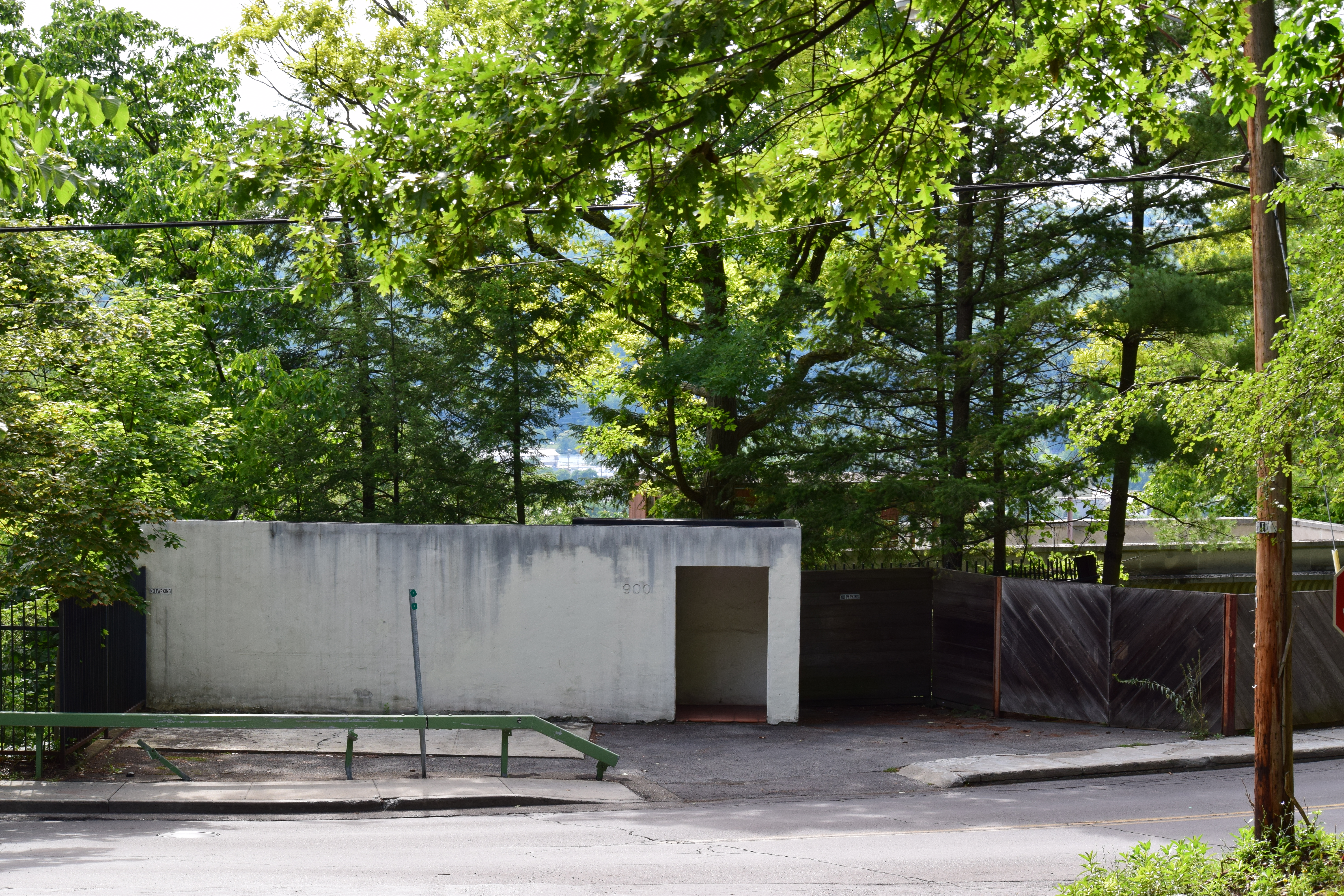 View from the street of 900 Stewart Avenue (Ithaca, New York)